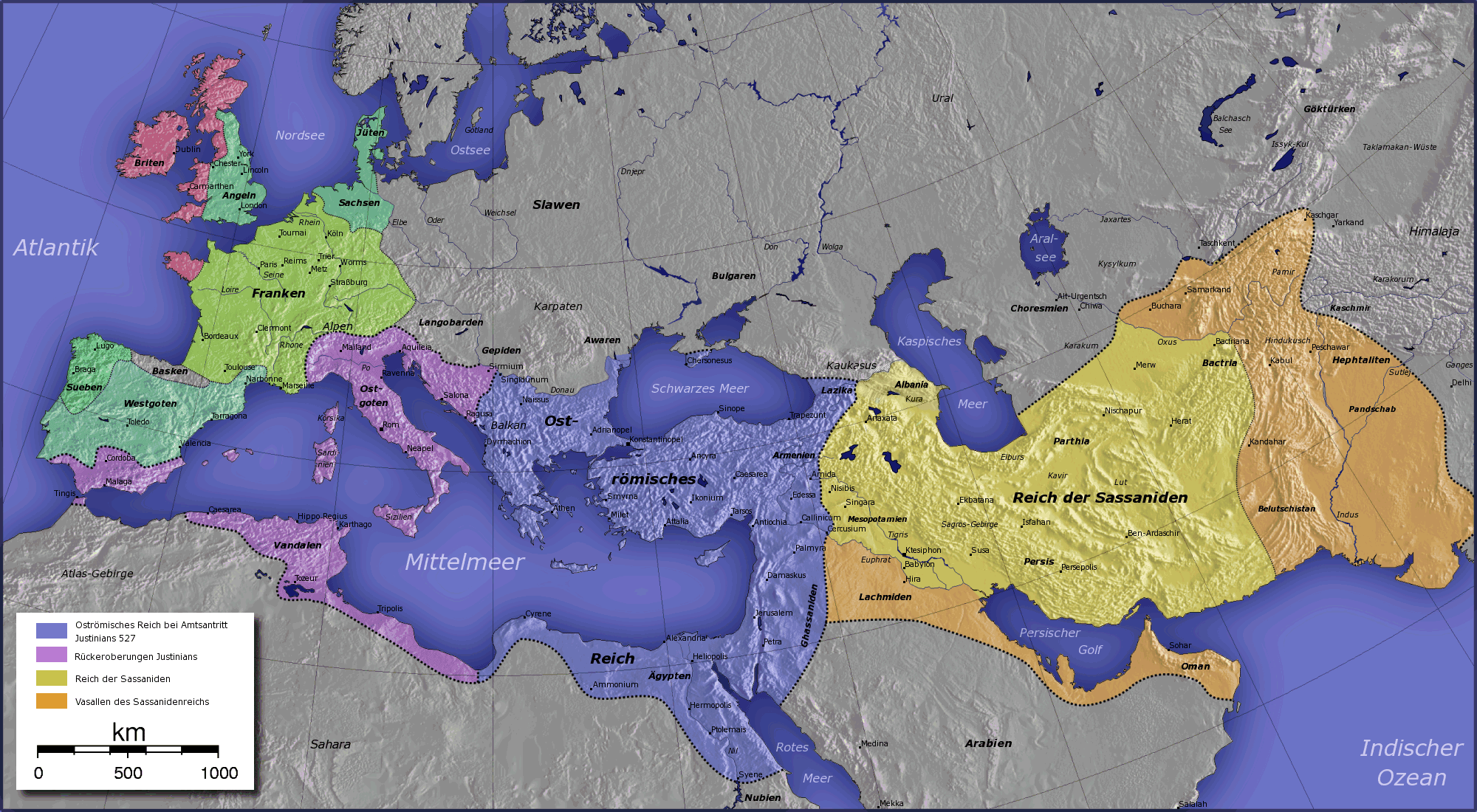 Das Restaurationswerk Justinians I